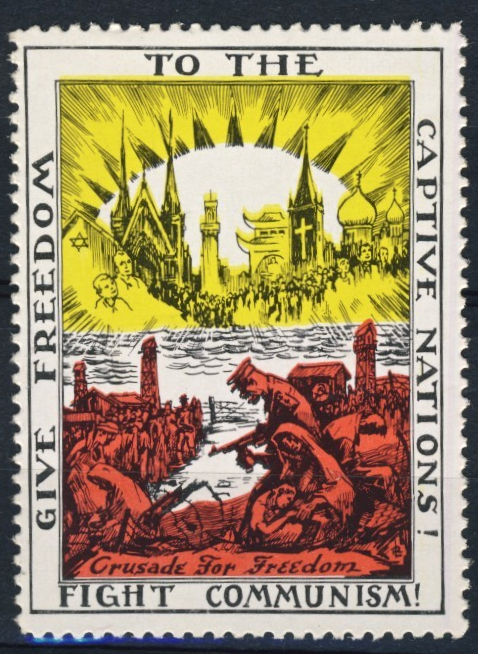 Stamp from the Crusade for Freedom, a campaign to create domestic support for America's Radio Free Europe. Image depicts a heavenly world of religious tolerance on the top, versus a hellish world of communist oppression below.